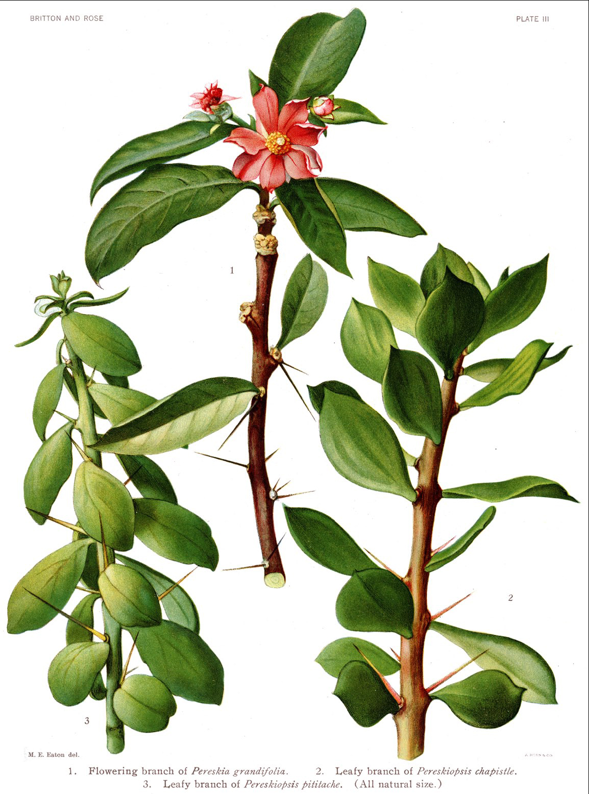 Pereskiopis pititache, Pereskia grandiflora, Pereskiopis chapistle